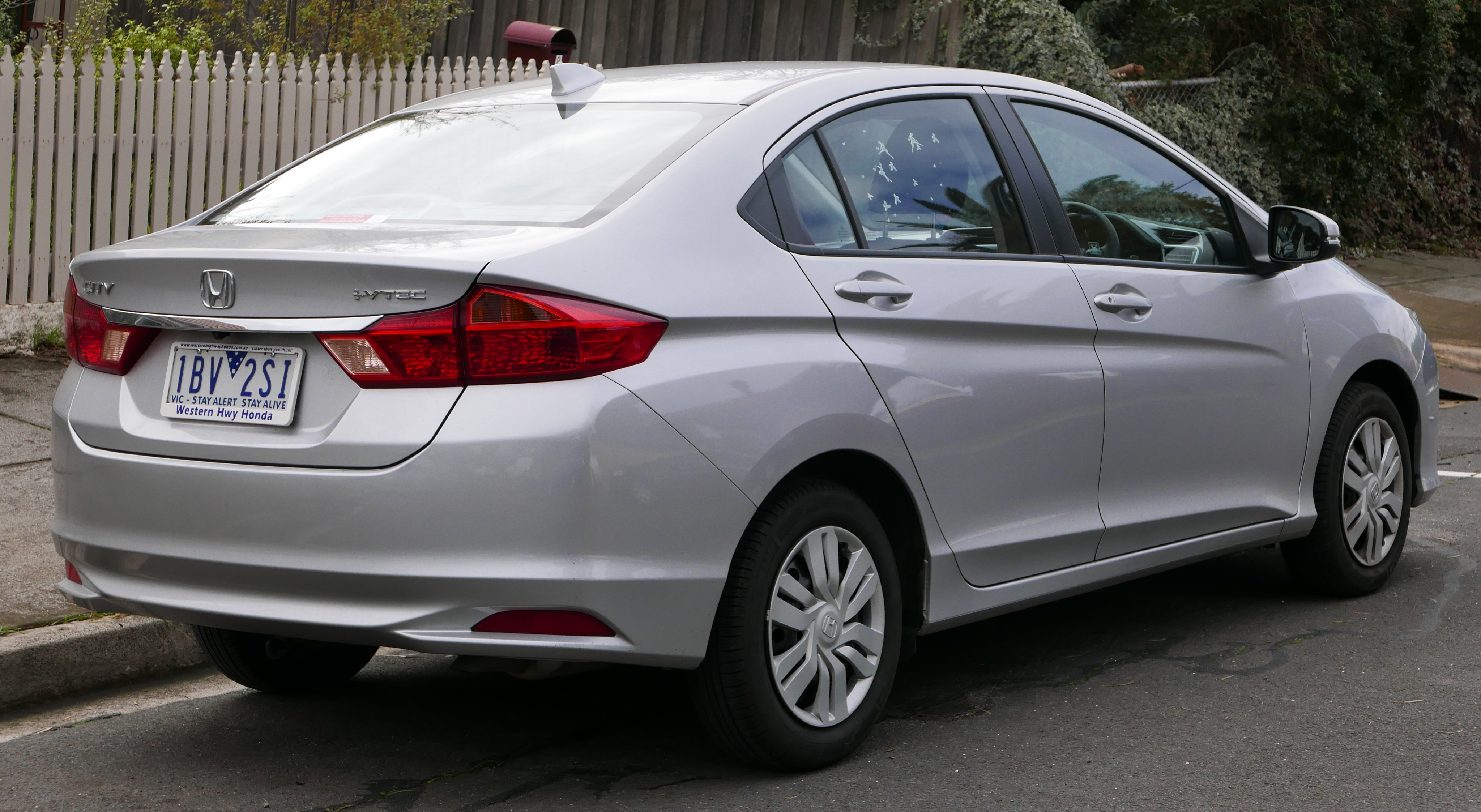 2014 Honda City (GM6 MY14) VTi sedan. Photographed in Preston, Victoria, Australia. Vehicle registration enquiry resultsJurisdictionVictoriaRegistration1BV2SIChassis codeMRHGM6640EP010130Engine codeL15Z11400760Compliance date2014-04Year of manufacture2014